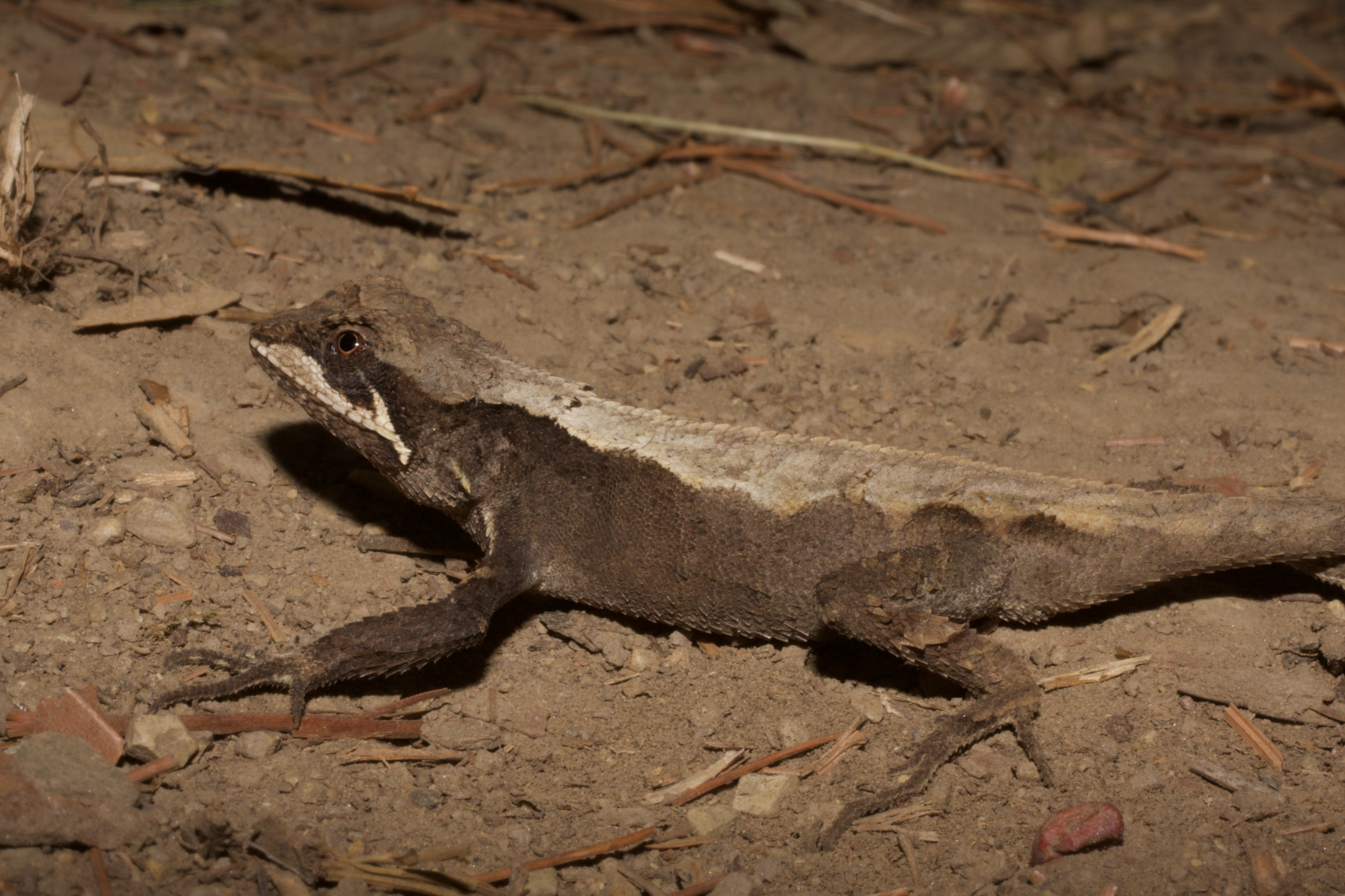 Photo taken in Tokalo Wildlife Sanctuary, Mizoram, India